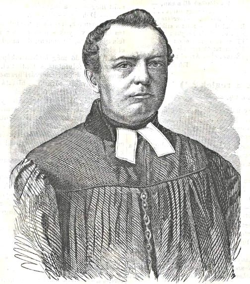 Portrait of Károly Máday